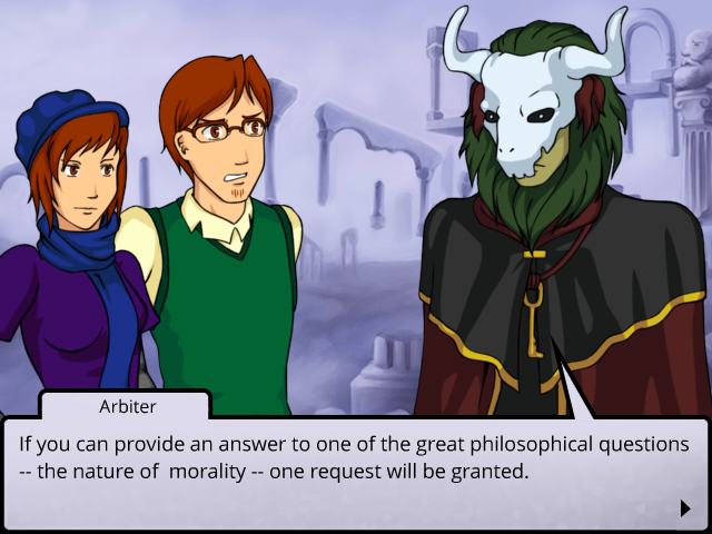 Screenshot from Socrates Jones